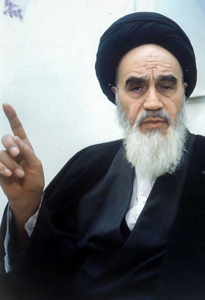 Ruhollah Khomeini